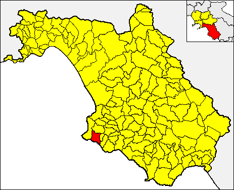 Locator map of the municipality of Montecorice (red) within the Province of Salerno